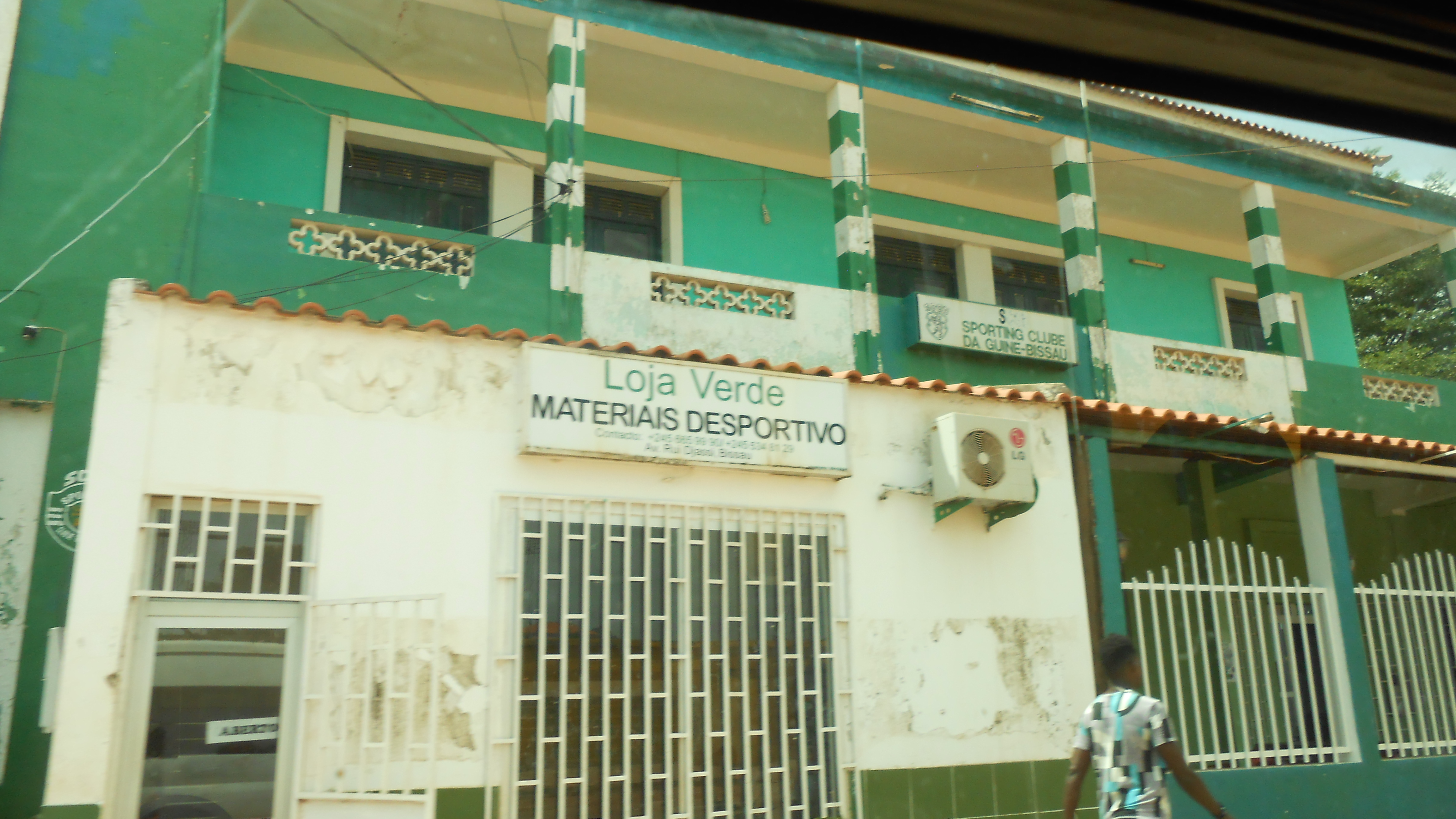 Headquarter and sports articles shop of Sporting Clube da Guiné-Bissau, in the capital Bissau. The club relates itself to portuguese team Sporting Clube de Portugal.